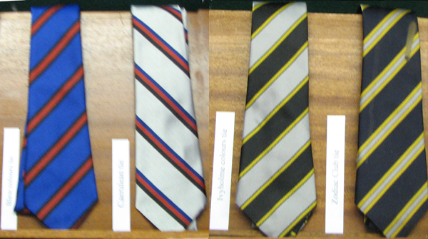 An amalgamation of two photographs, showing the boarding house ties awarded to pupils at Dulwich College if they have attained boarding house colours or membership of a boarding house club.